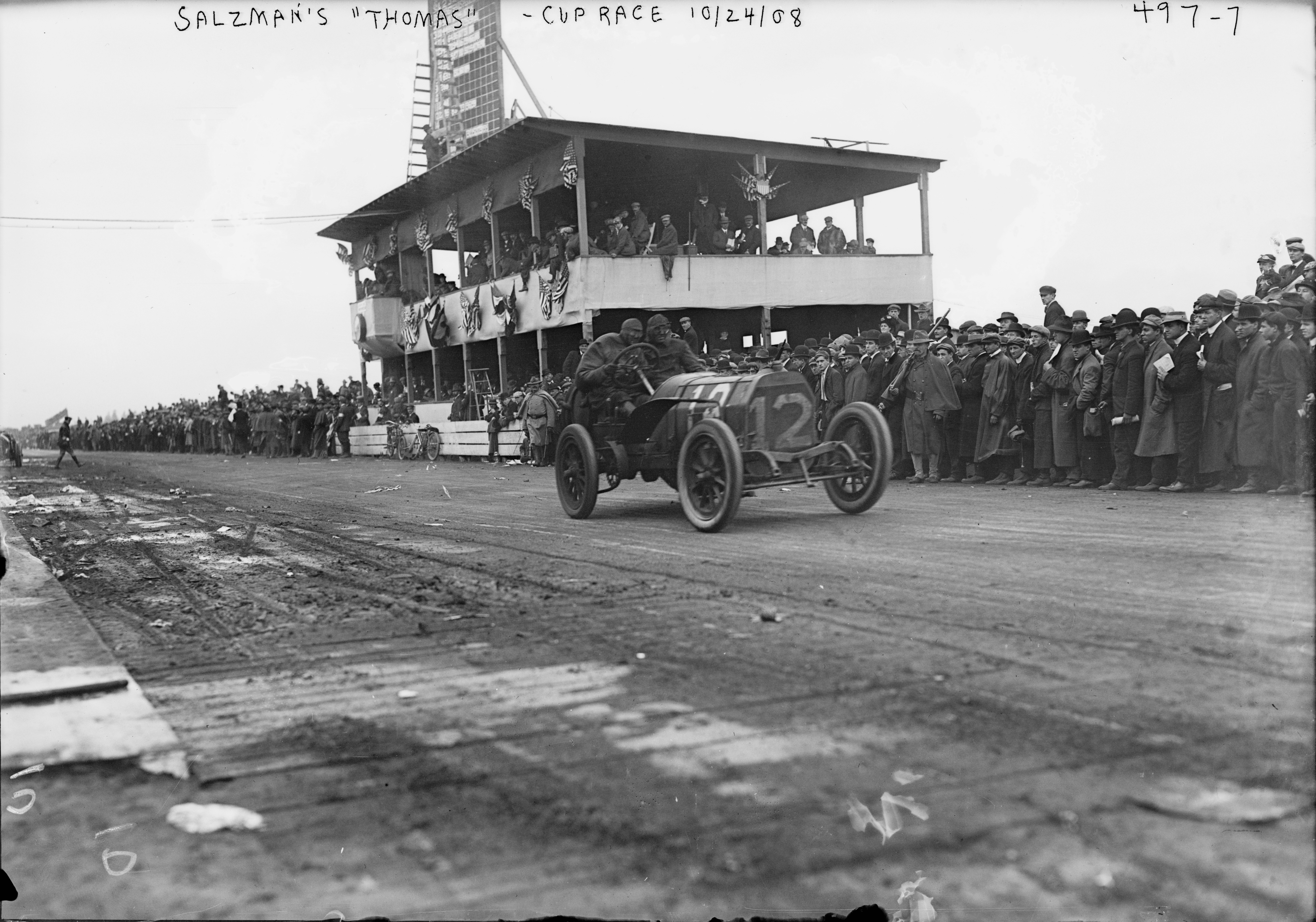 George Salzman on a Thomas Flyer at the 1908 Vanderbilt Cup race. He finished 5th.